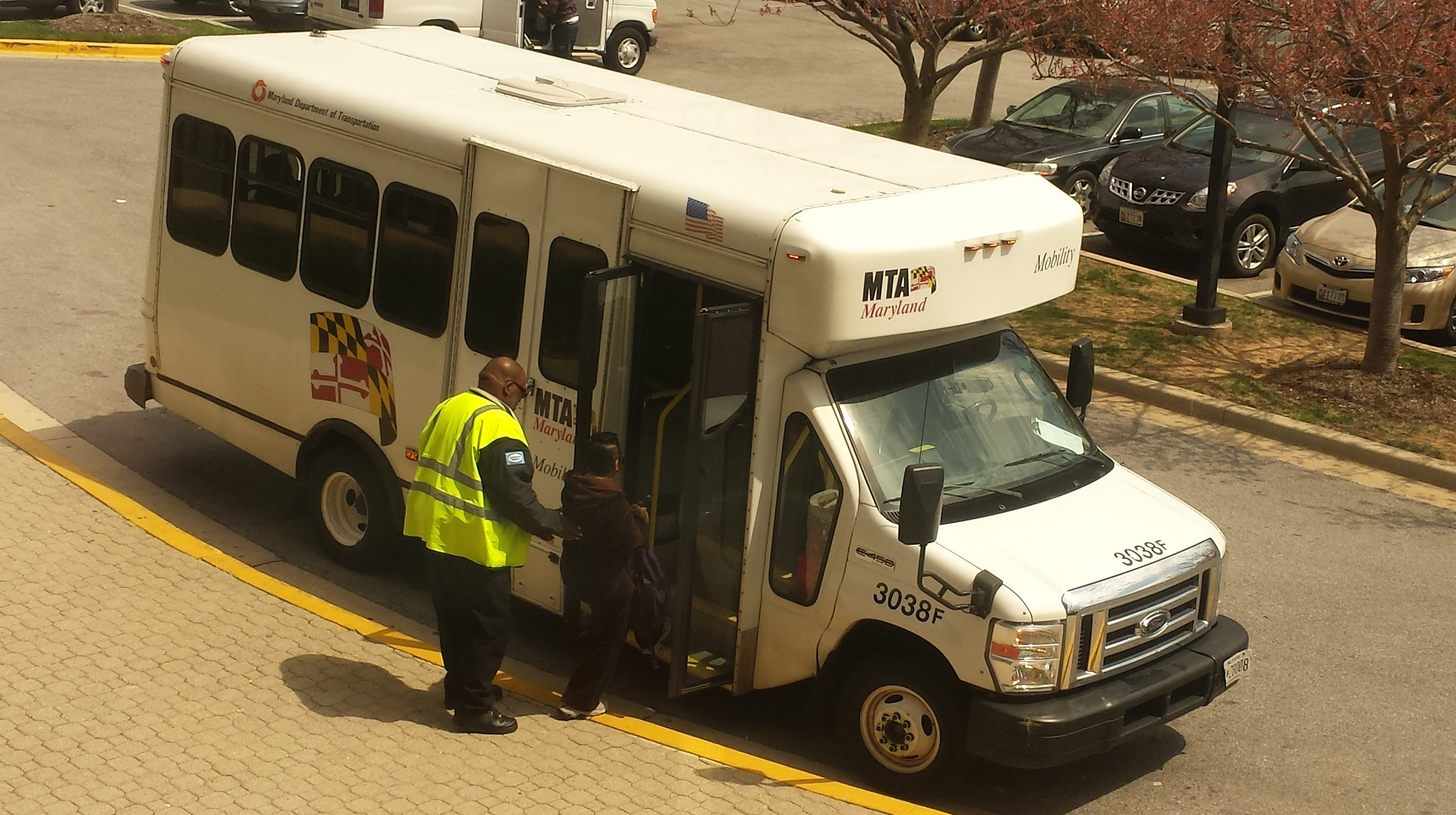 MTA Mobility vehicle operator shown assisting a customer board a paratransit vehicle